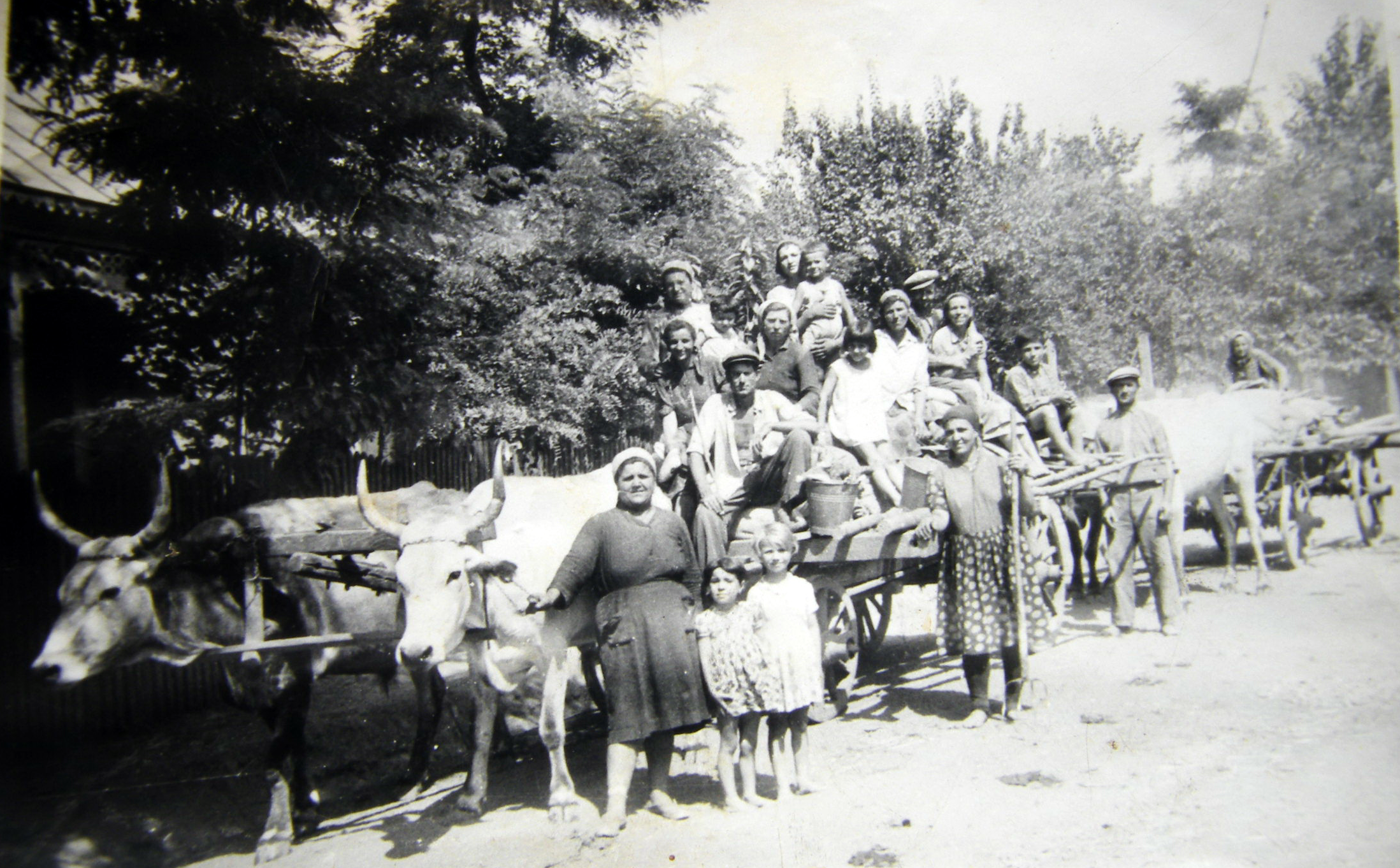 Farmers from the agricultural cooperative “7 November” in the village of Vintilești, comune of Bordei Verde in Brăila County, Romania. The year is 1962.